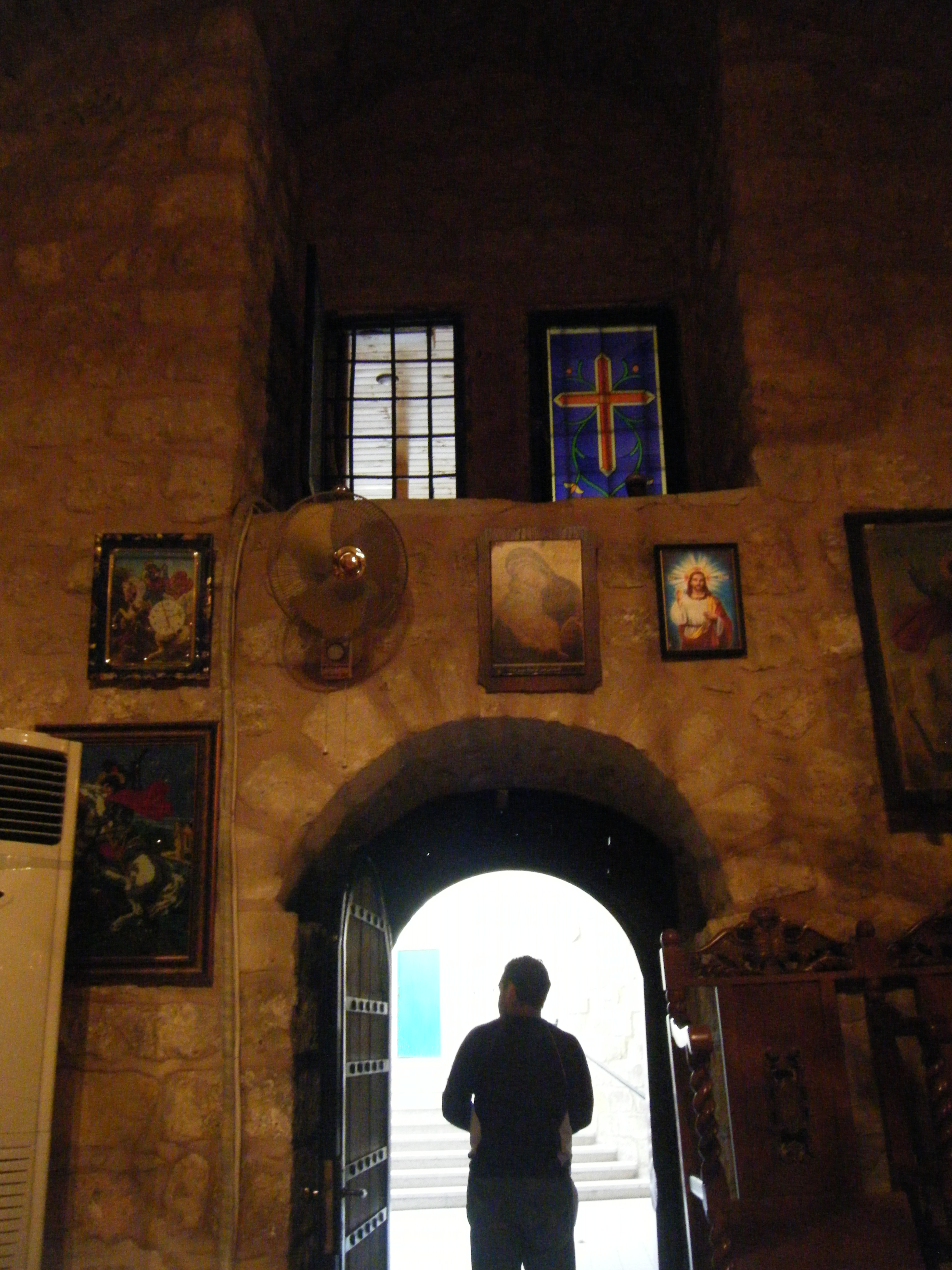 As Salt Saint George Church (Al Khader), Old Salt, Jordan